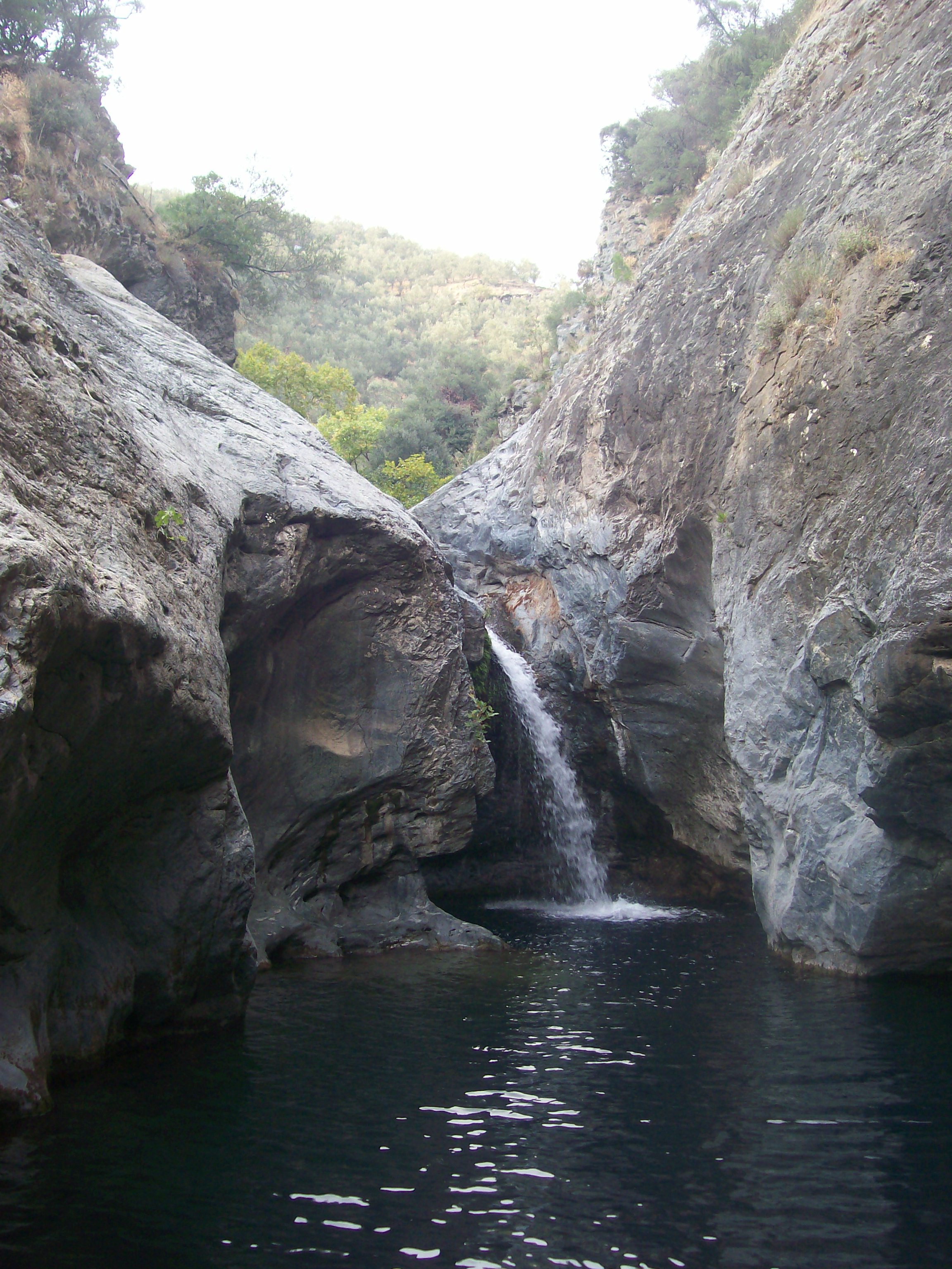 Mıhlı Waterfall is in Mıhlı Stream. This stream divided Mount İda Çanakkale part and Balıkesir part.